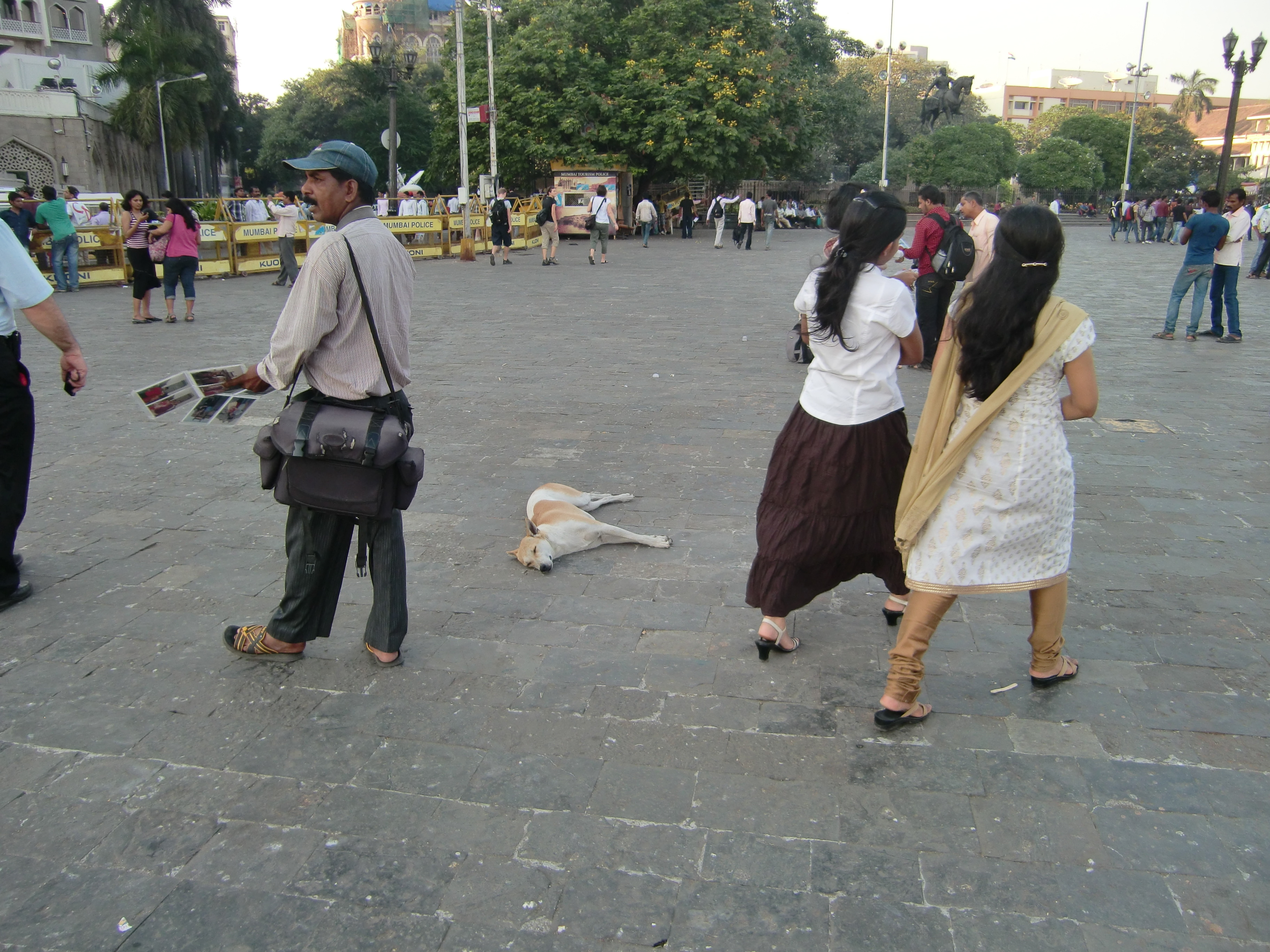 dog, picture seller and two ladies in the square at the gateway of India